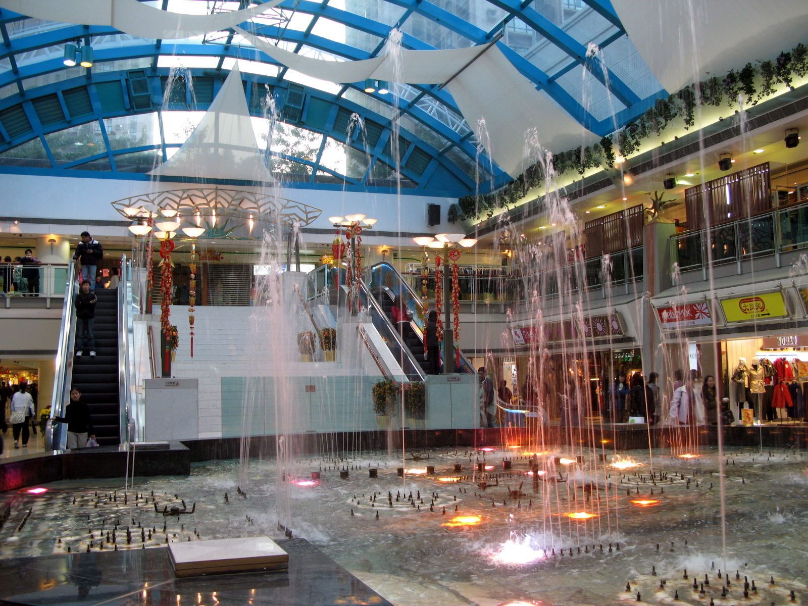 HK MOS Sunshine City Plase4 interior